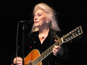 Judy Collins performing in Bradford, PA (2-5-2009)